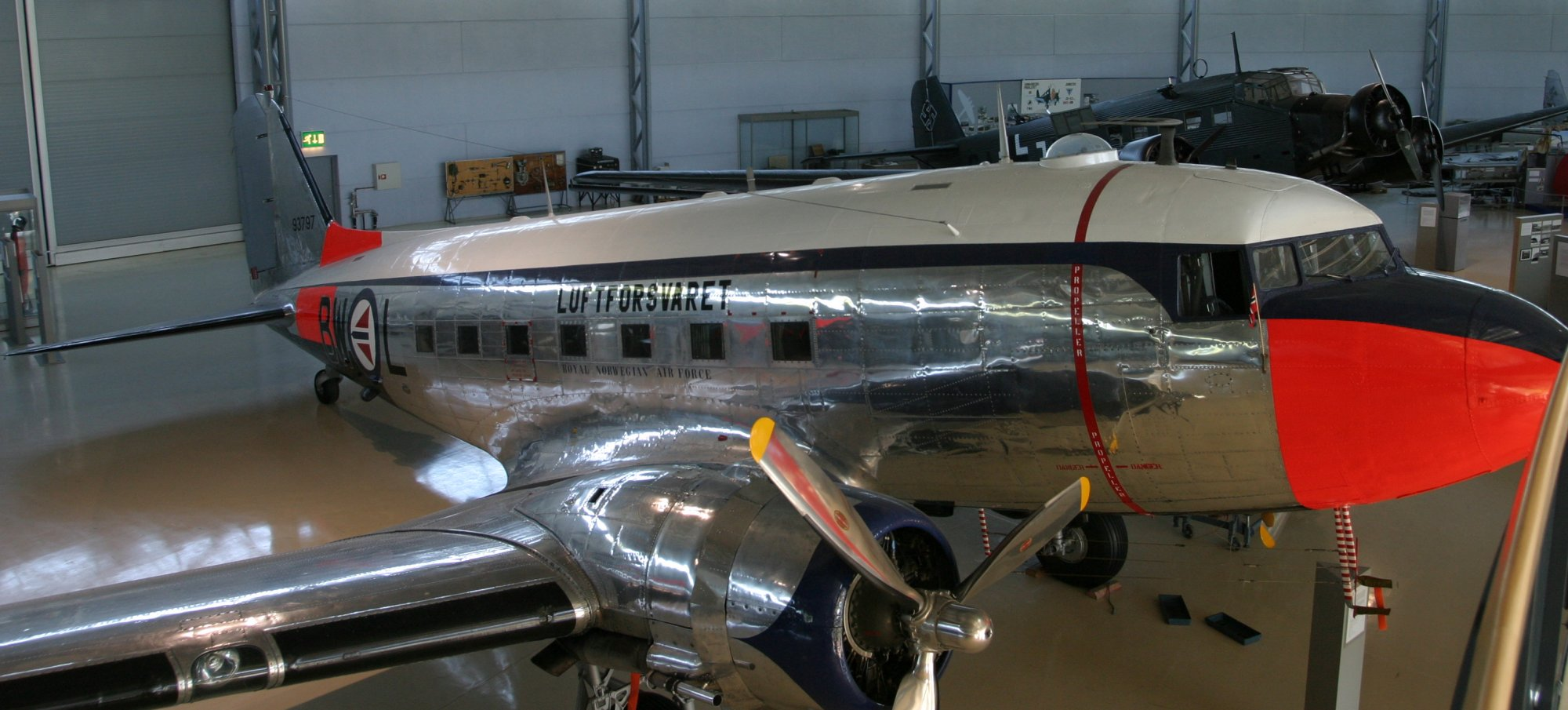 ex-335 skvadron C-47 on display at Flysamlingen, Gardermoen